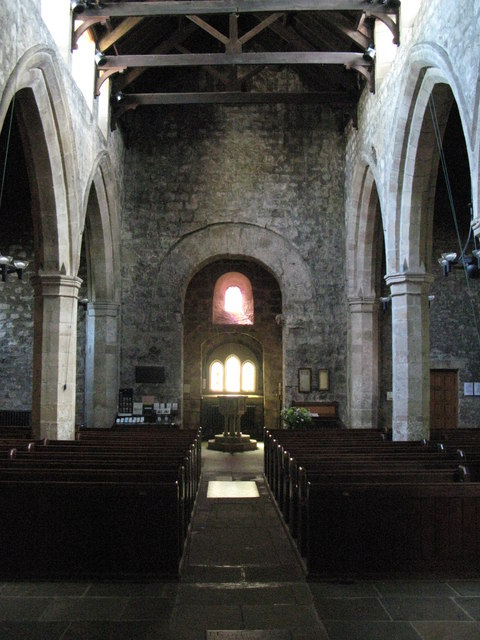 St Andrew's Church - nave